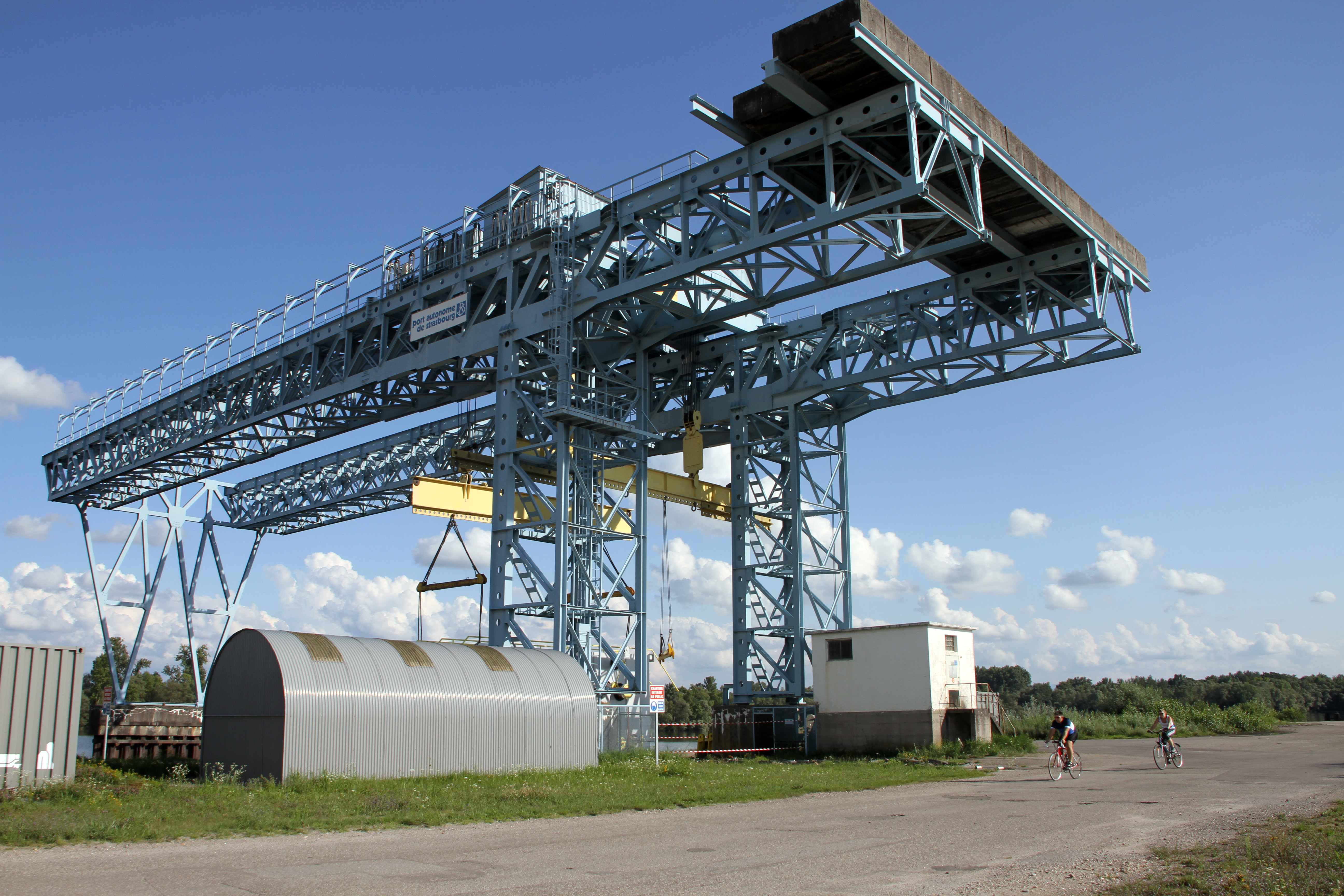 Lauterbourg harbour